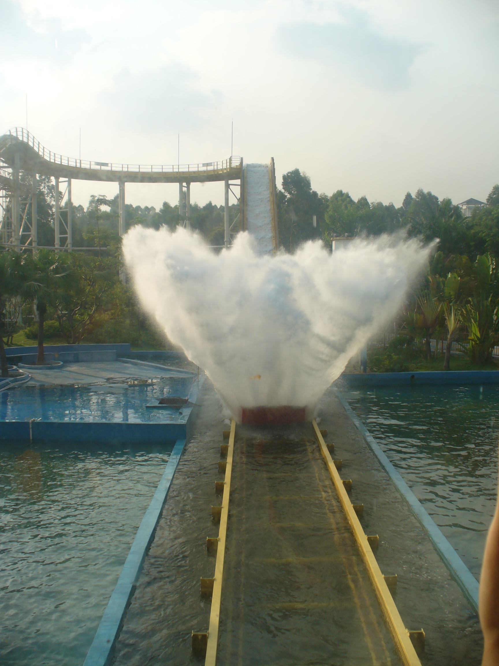 Chime-Long Circus